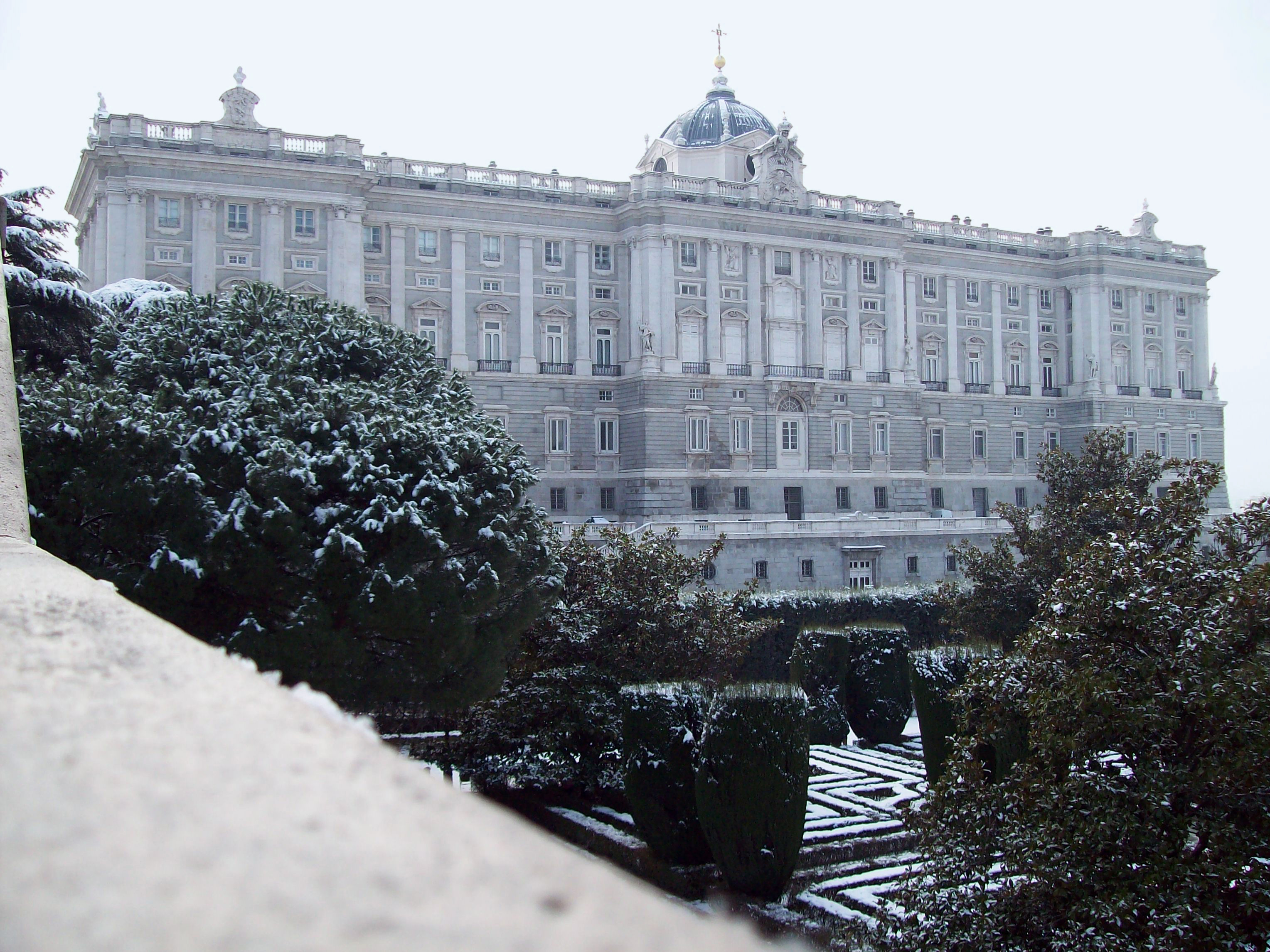 Sabatini Gardens and north façade of the Royal Palace of Madrid (Spain) after a snowfall.